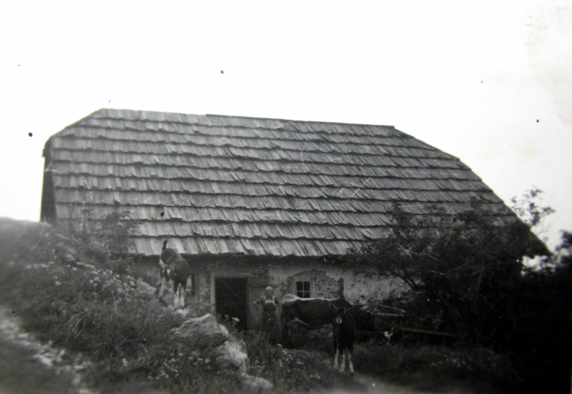 Highest farm of Sappl at number 1 on Leitsberg in approximately 1,000 m above sea level. The farm is no longer permanently inhabited, but serves as pasture. Sappl is a village near Lake Millstatt (Millstätter See), district Spittal an der Drau in Carinthia / Austria / European Union. The photo shows the stable and barn, which is covered with wooden boards. At the entrance stands a milkmaid. A cow, a calf and a goat can be seen. Special thanks to John Palle vulgo "Veidl Hans" (1937-2012).